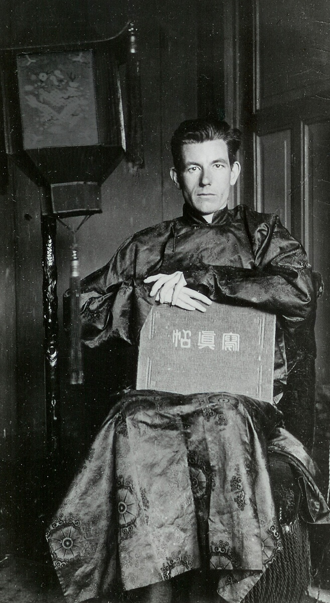 Jan Jacob Slauerhoff (Dutch poet and novelist, 1898-1936) wearing a kimono. Photo probably made in the Netherlands, shortly after Dec. 1927. On his lap is a photographic album, with the Chinese characters 寫真帖, in modern Chinese 照相册. The Chinese floor lamp in the background is now in the Dutch Literature Museum.